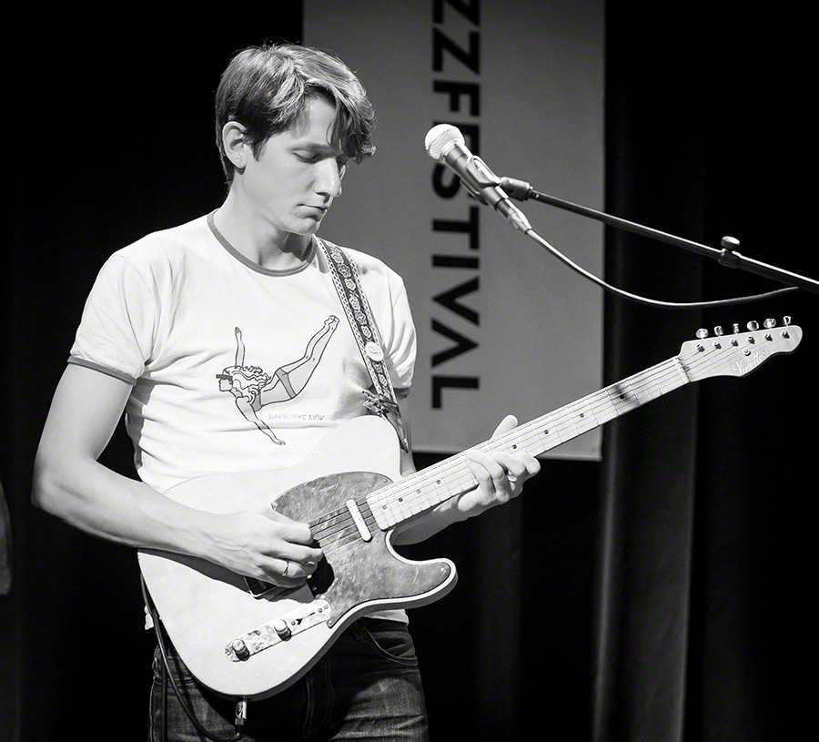 Lars Ove Fossheim performs with Ferdigsnakka: Broen og Moskus at the stage of Nasjonal Jazzscene Victoria. The concert was part of the Oslo Jazz Festival in Norway and took place on 15. August 2016. Lineup:Anja Lauvdal (keyboard)Fredrik Luhr Dietrichson (double bass)Hans Hulbækmo (drums)Heida Karine Johannesdottir (tuba)Lars Ove Fossheim (guitar)Lars Saabye Christensen (spoken words)Kjartan Fløgstad (spoken words)Vigdis Hjorth (spoken words)Geir Gulliksen (spoken words)Ingvild Schade (spoken words)